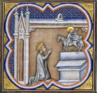 Clotilde, femme de Clovis, dévote de saint Martin ; miniature pour les Grandes Chroniques de France, 14e siècle; Bibliothèque nationale de France